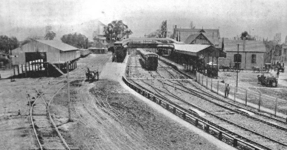 The Tigre railway station, built by Buenos Aires Northern Railway (then took over by Central Argentine Railway), at the beginning of XX Century. That station operated until 1995 when a new terminus was opened by TBA, being the old one closed. The Municipality of Tigre reopened it as a boat station ("Estación Fluvial") in the 2000s.